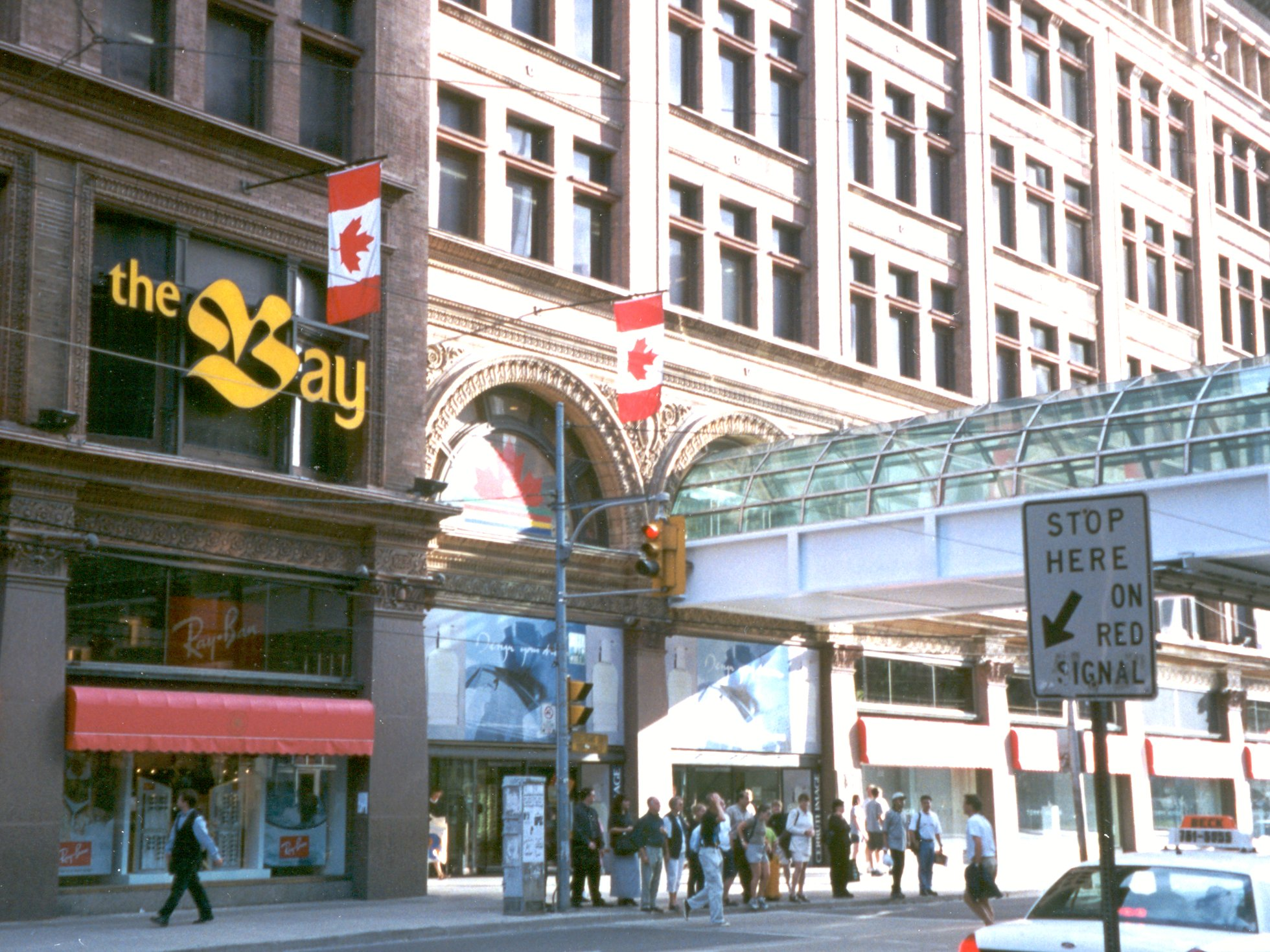 Robert Simpson Company, Queen Street facade.